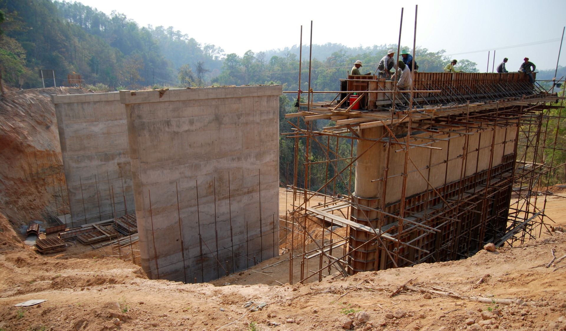 A new bridge is built for road 108. Photo was made in March 2010.